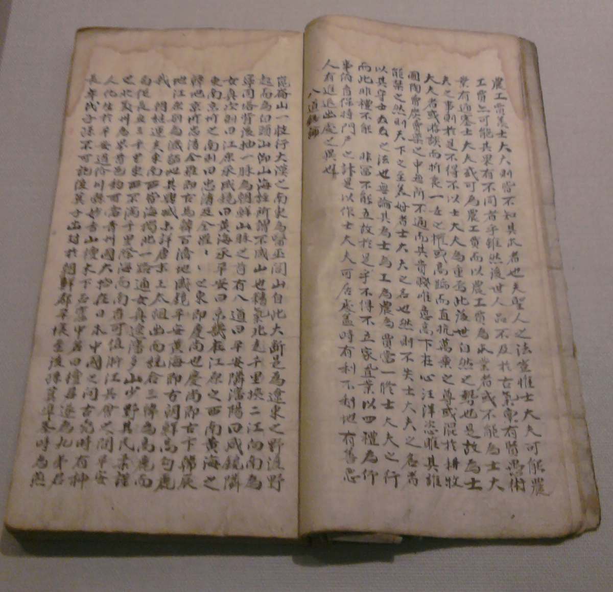 Taeckriji displayed in Seoul National University Kyujanggak Institute for Koreanology Studies